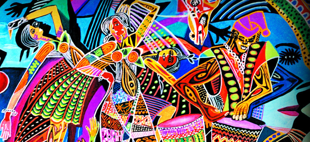 Detail of "Mortal Feelings" by Ibiyinka Alao